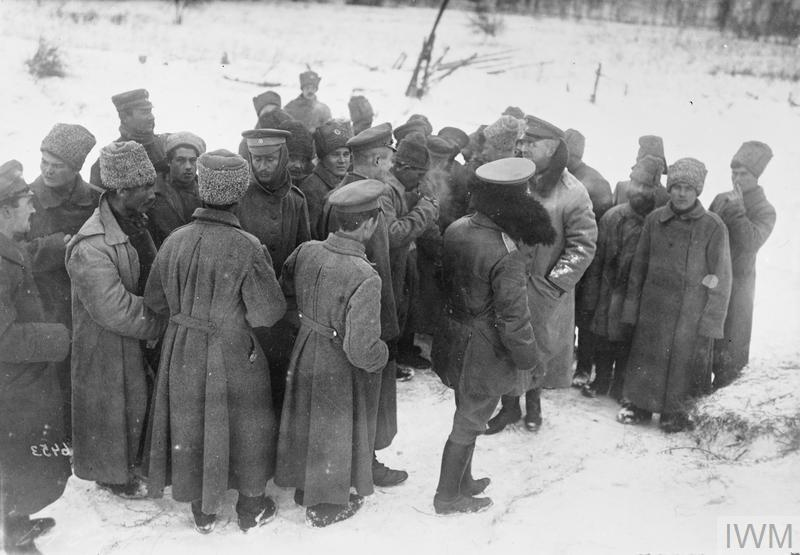 German and Bolshevik troops fraternizing in the area of the Yaselda River at the time of the peace negotiations at Brest-Litovsk, February 1918.